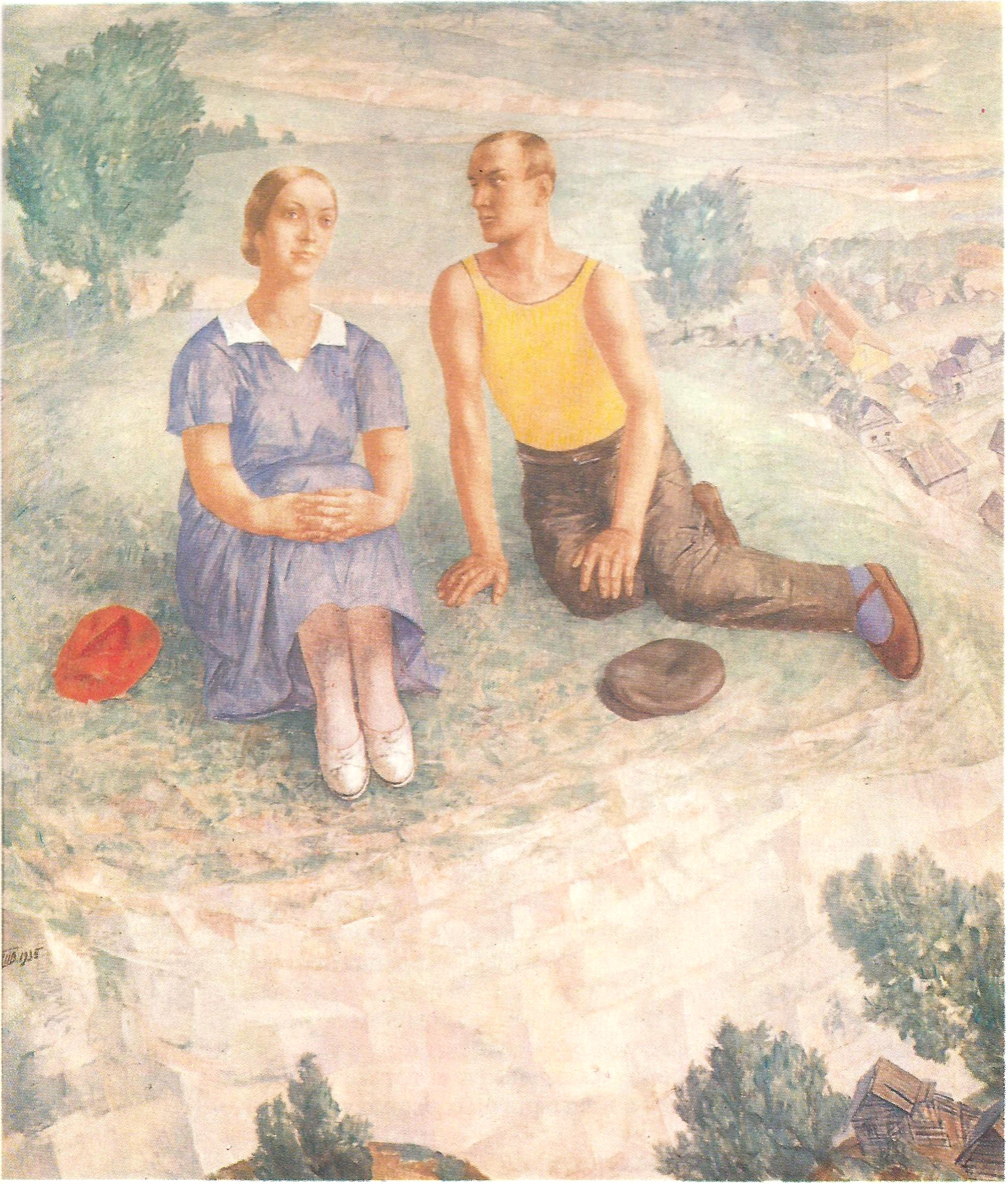 Spring oil on canvas, 186 x 159 cm The painting is located in the State Russian Museum in St. Petersburg, Russia